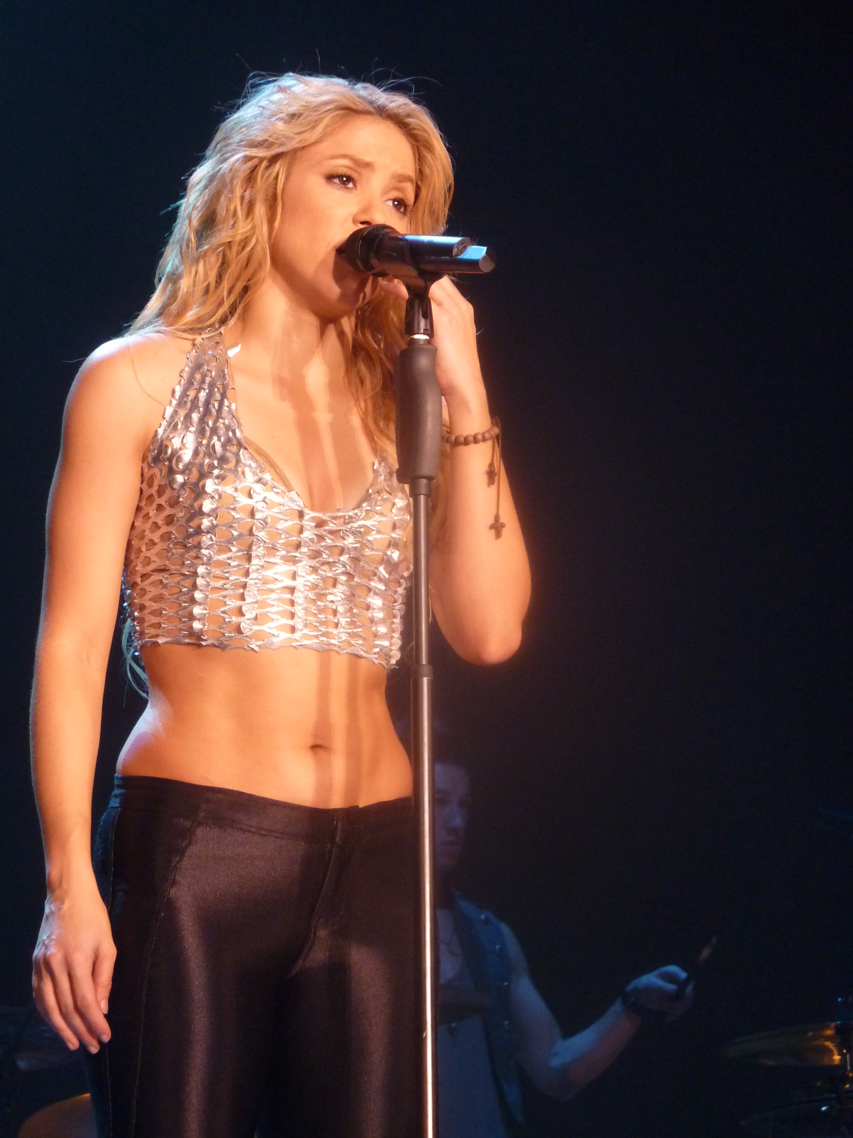 Shakira in concert in Palais Omnisports de Paris-Bercy, Paris in 2010.